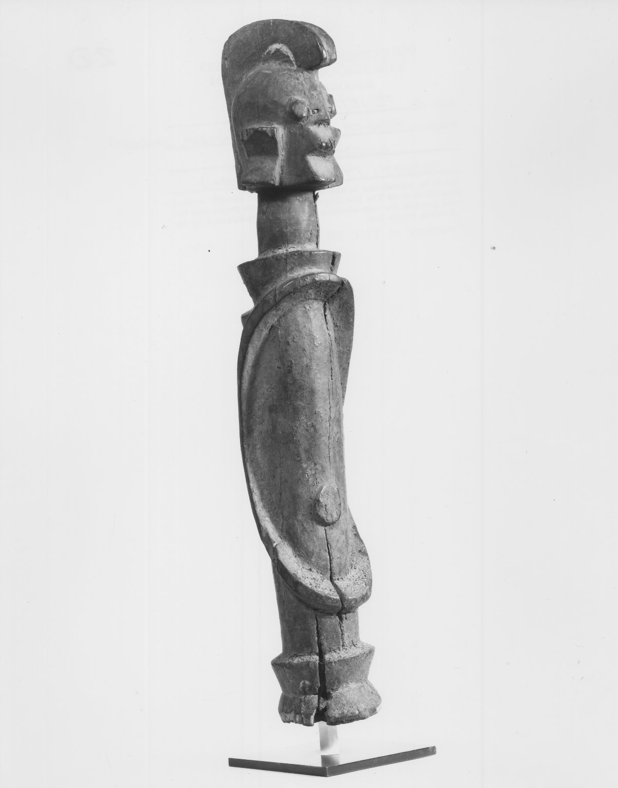 Figure (Wumdul)